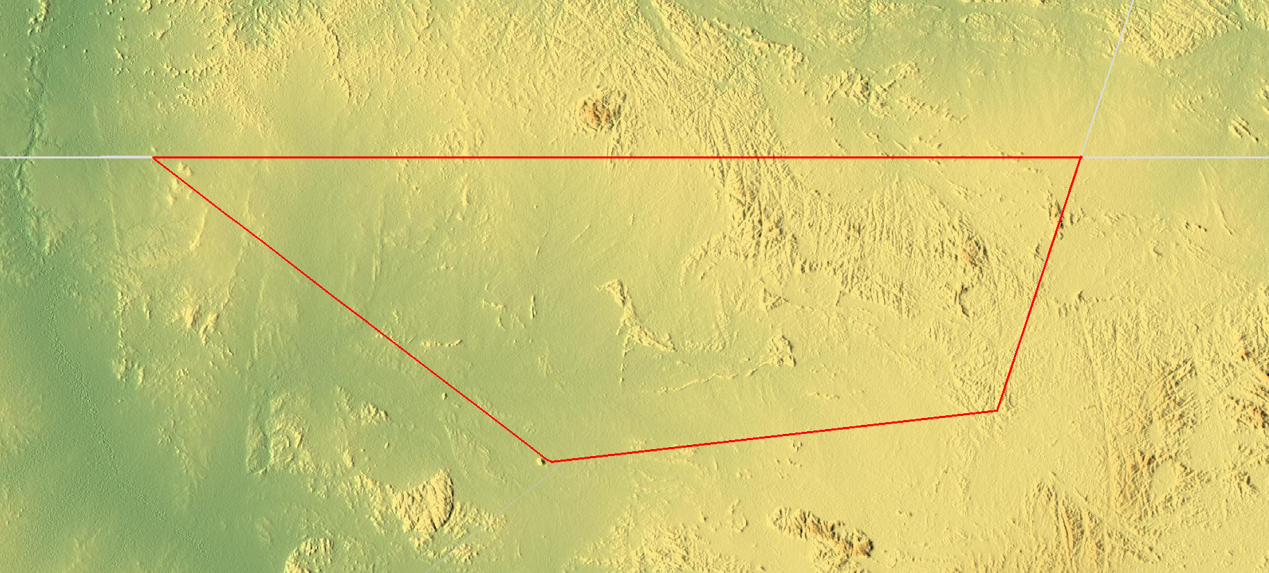 A Topographic Map of Bir Tawil (highlighted in red), a Terra nullius between Egypt and Sudan.